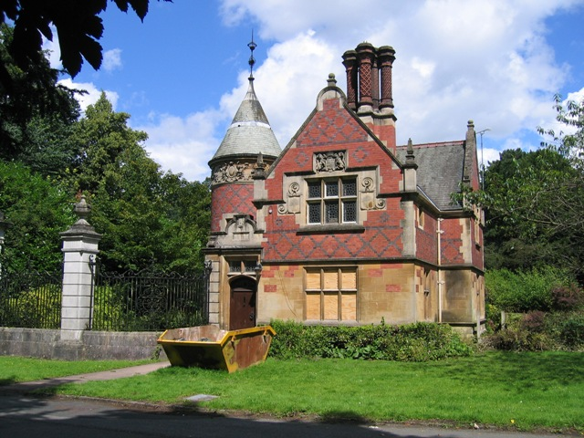 The Lodge on the Duke's Drive This lodge house is by the gates to the so called Duke's Drive near the Overleigh roundabout. The drive used to lead to Eaton Hall, the home of the Duke of Westminster, however, the A55 cut through the drive and so it can no longer fulfil its original purpose.